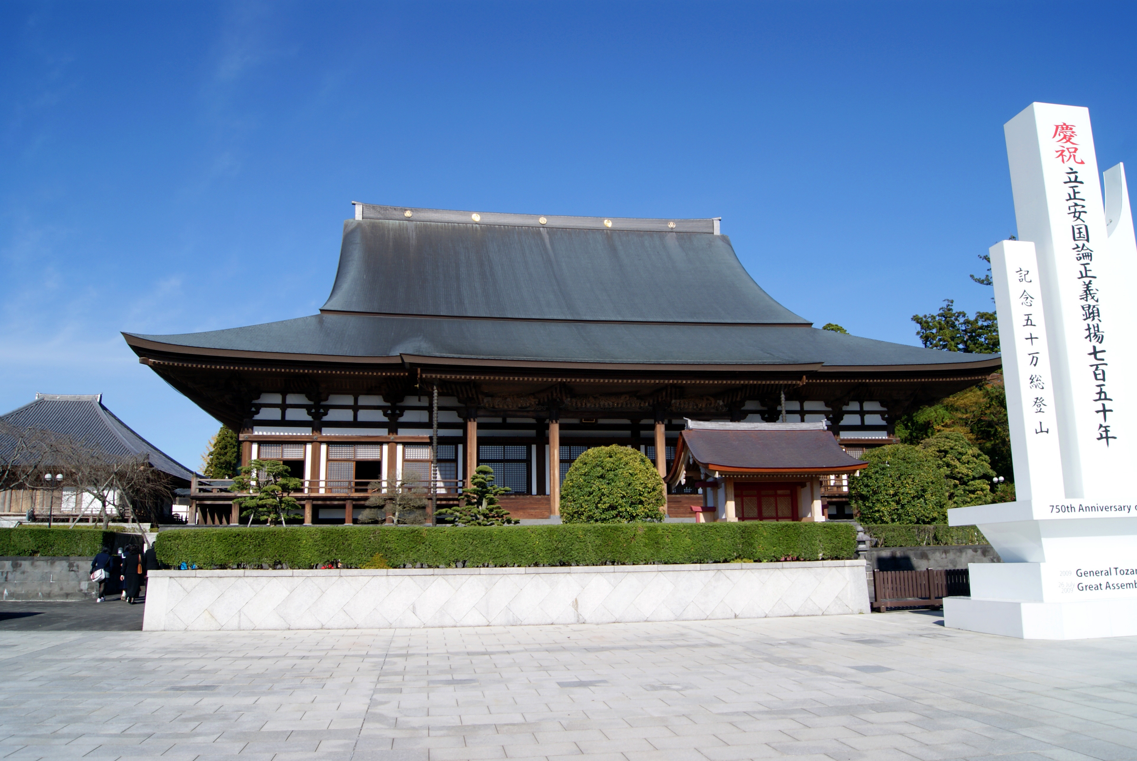 Reception Hall of Taiseki-ji in 2009.